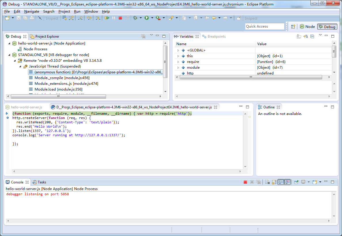 Nodeclipse NTS when debugging Node.js application